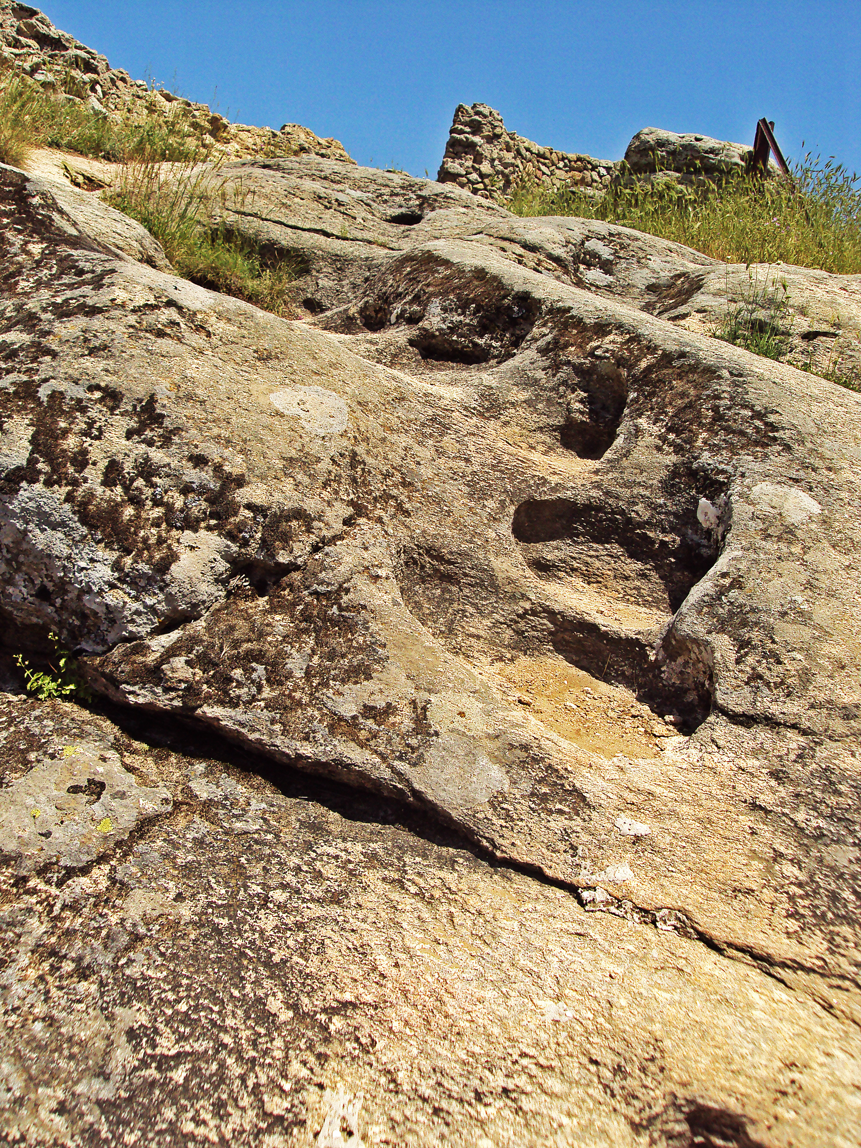 Markos steps